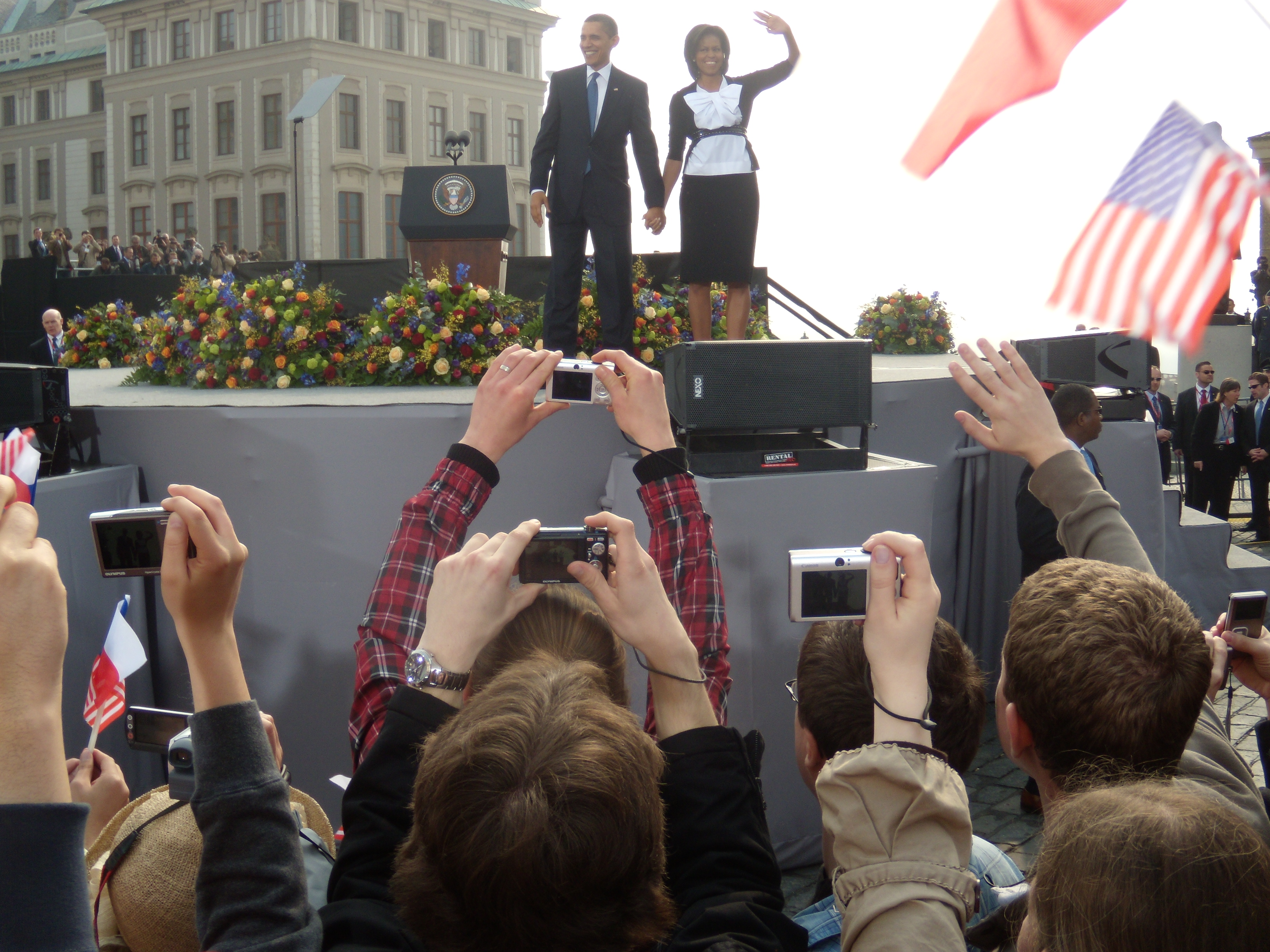 President Obama and his Wife, Michelle